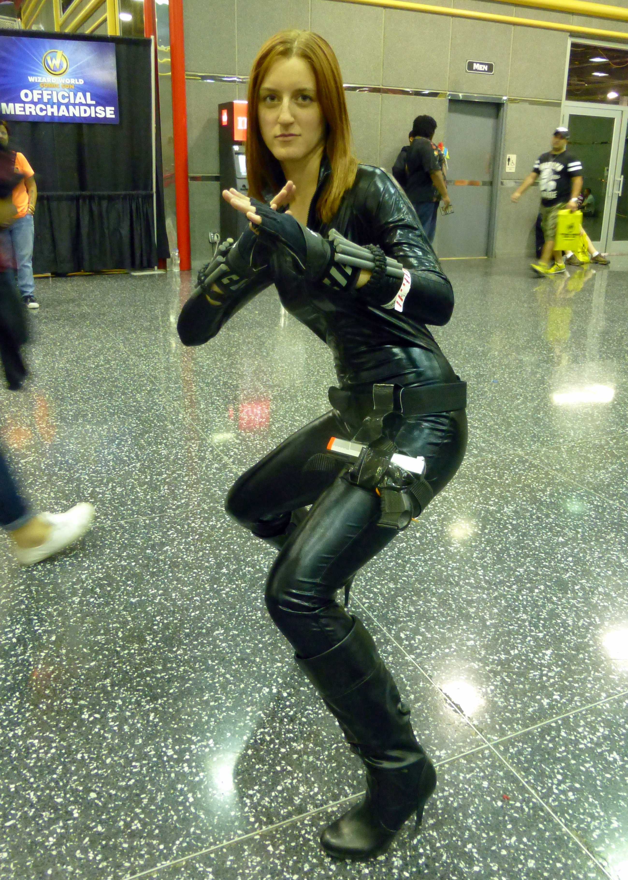 Cosplay at the 2014 Wizard World Chicago.